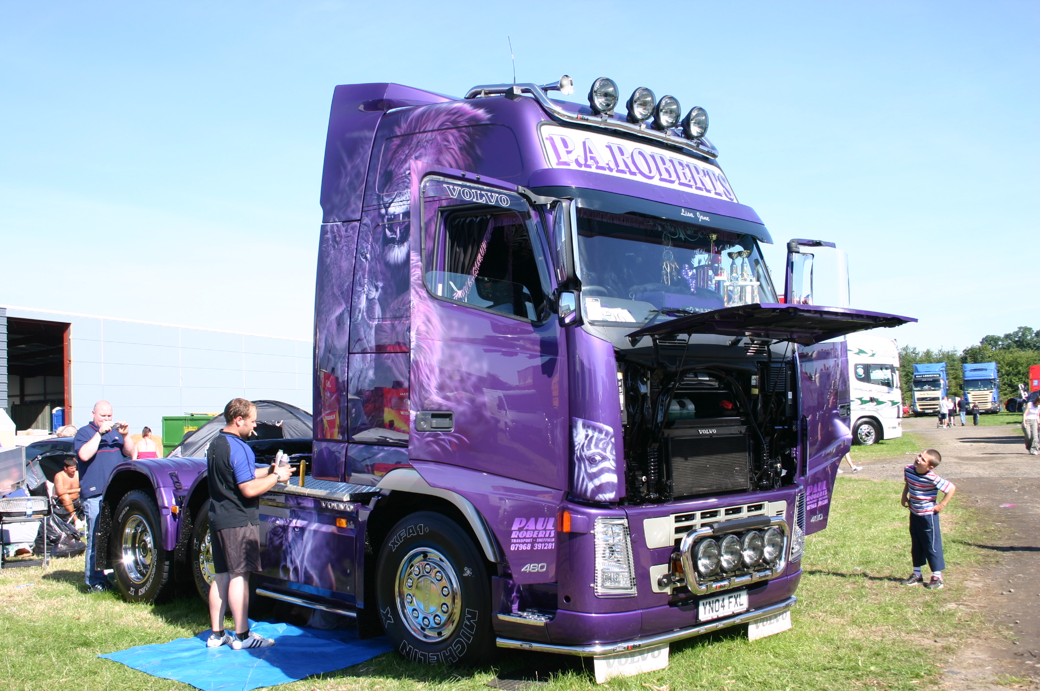 Big trucks on display at a Yorkshire event